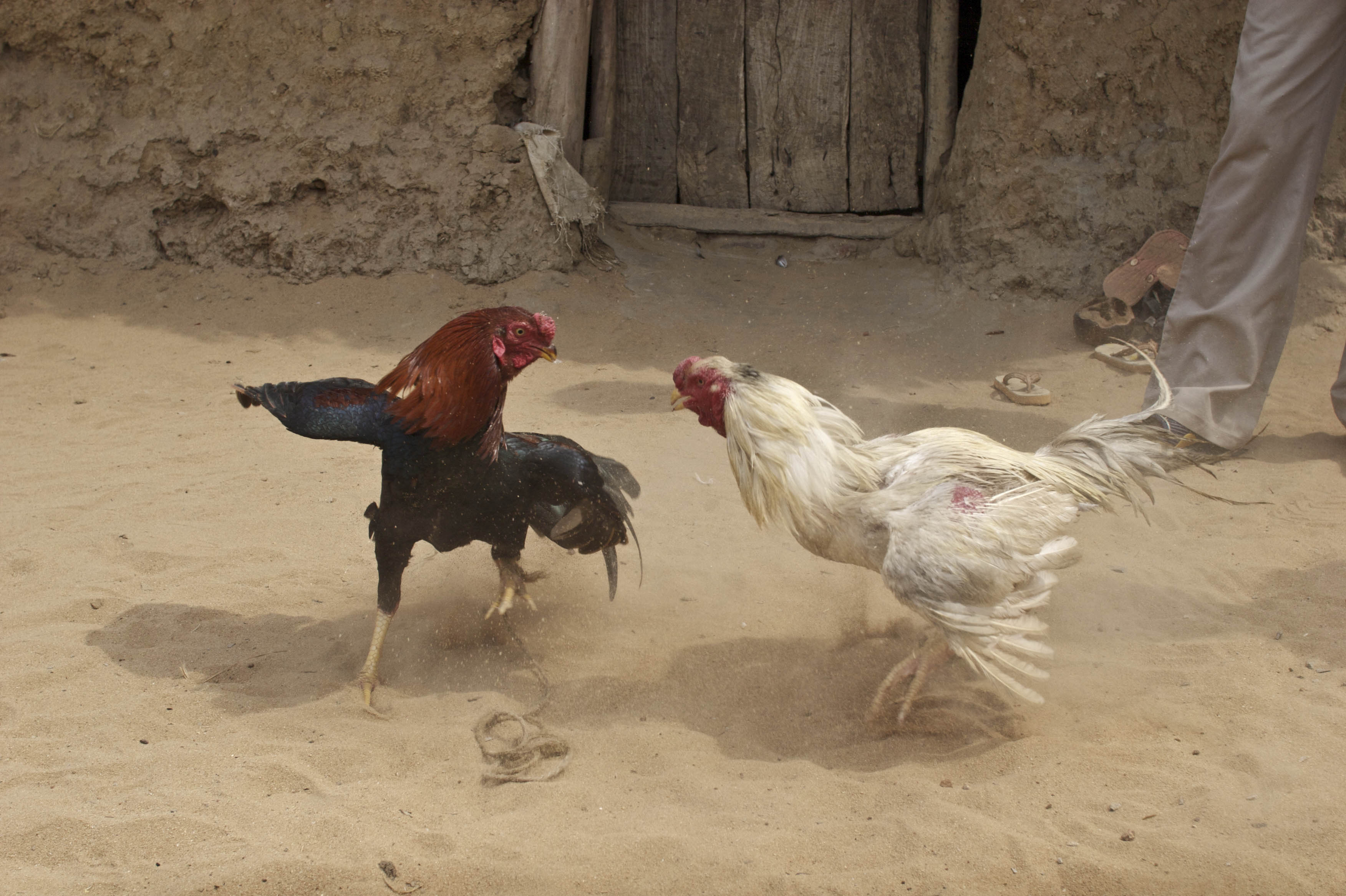 A cock fight in India.